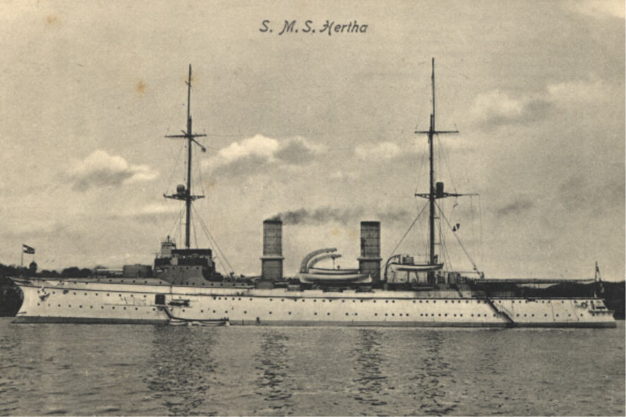 SMS Hertha after the refit.